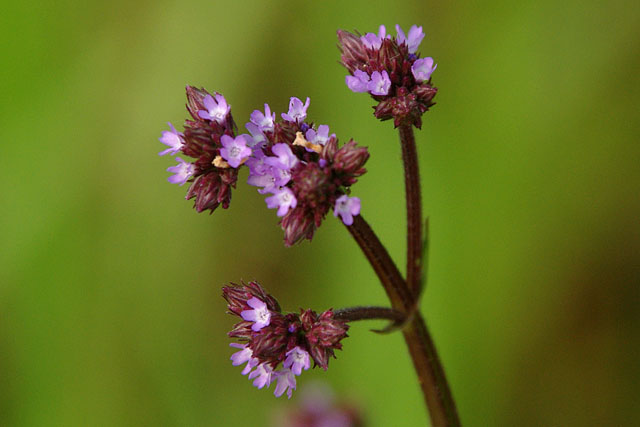 It takes a picture in the Ukishimagahara Nature Park.